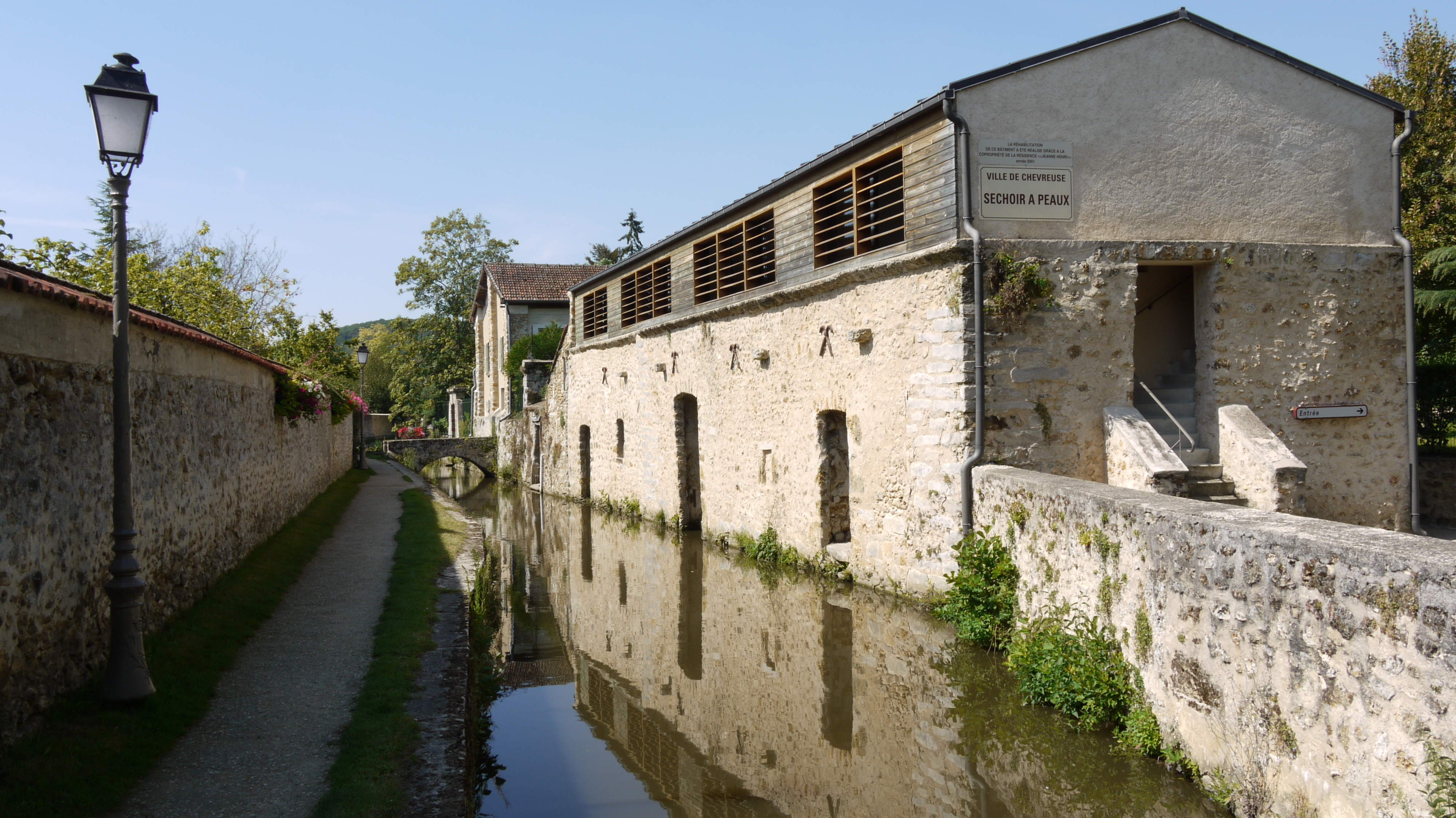 Chevreuse, Ile de France